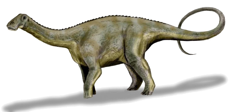 Nigersaurus taqueti, a sauropod from the Early Cretaceous of Niger, after description by Sereno et al., 2007, pencil drawing, digital coloring